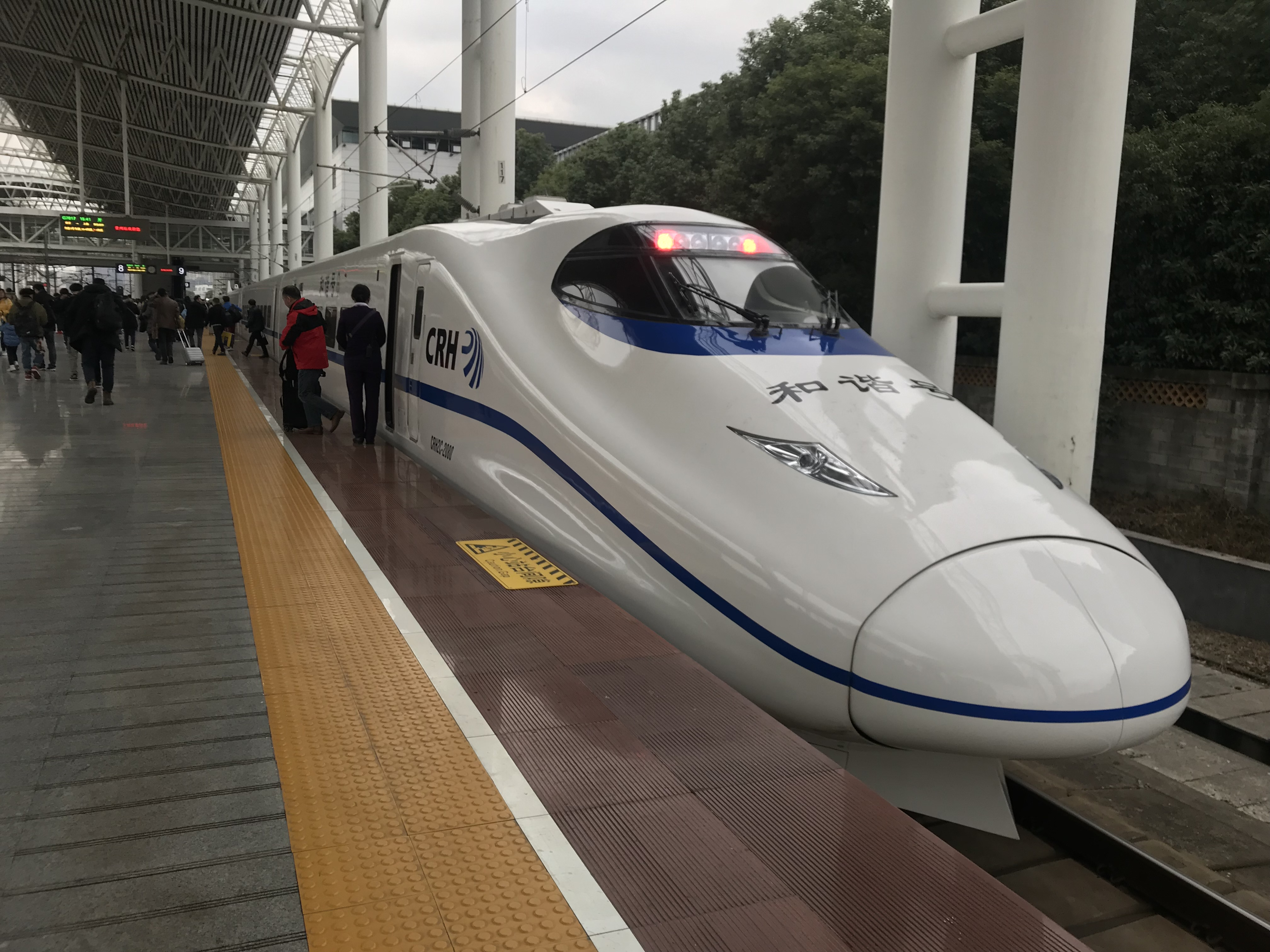 201812 CRH2C-2080 operates as G7356 from Quzhou arriving at Changzhou Station